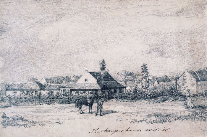 Dr Stanger's House, Pietermaritzburg, Pencil drawing, 18,9 x 27,9cm